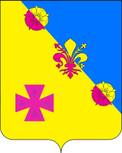 Coat of arms of Kujarivka, Yeisk raion, Krasnodar krai, Russia.